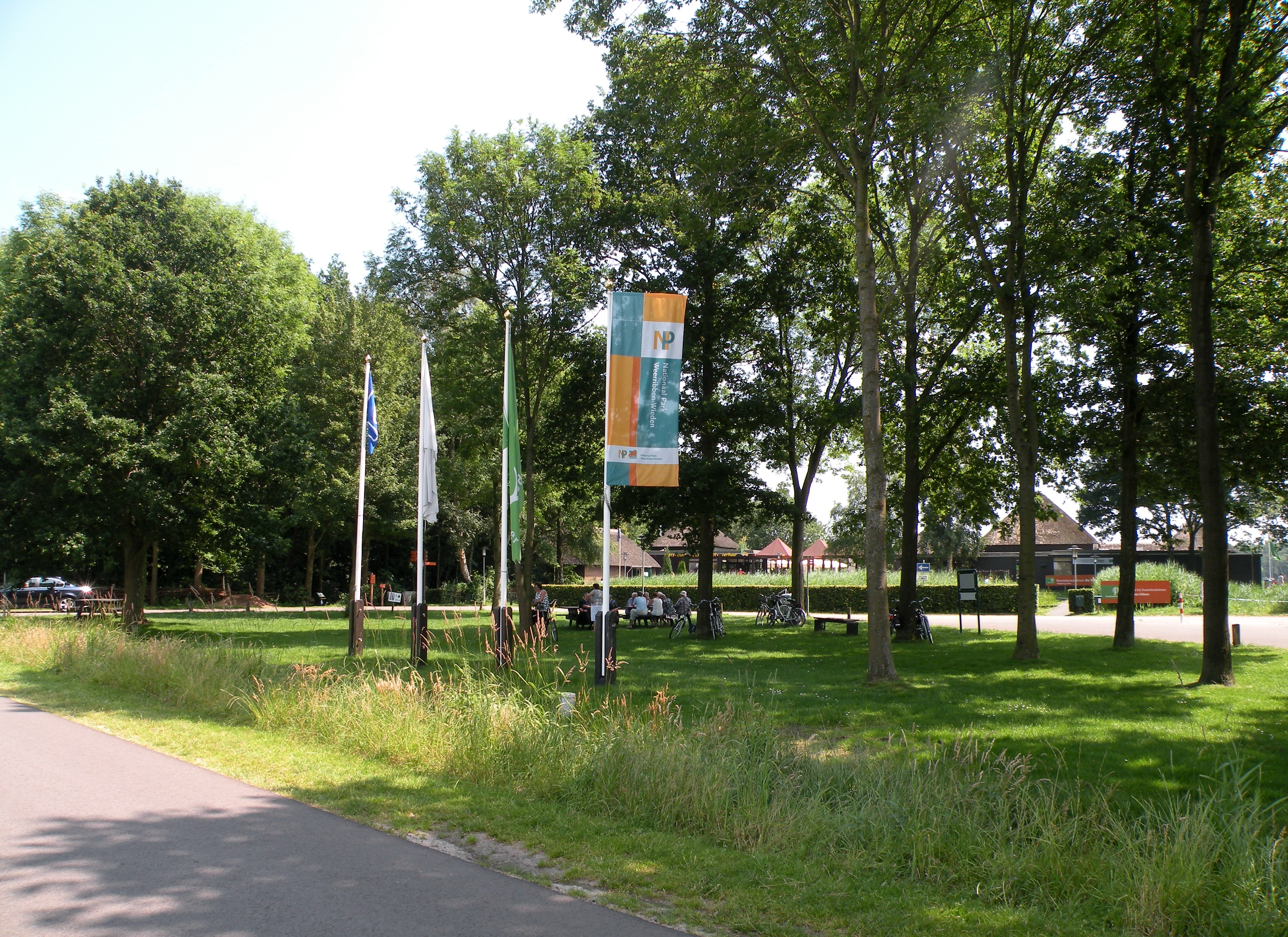 Tourist information centre "De Weerribben", Overijssel, The Netherlands